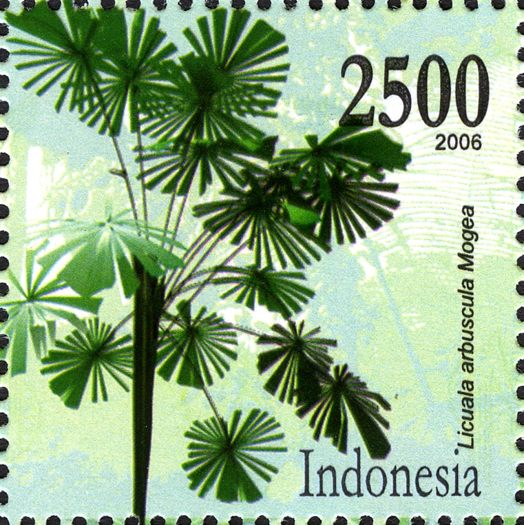 Stamps of Indonesia